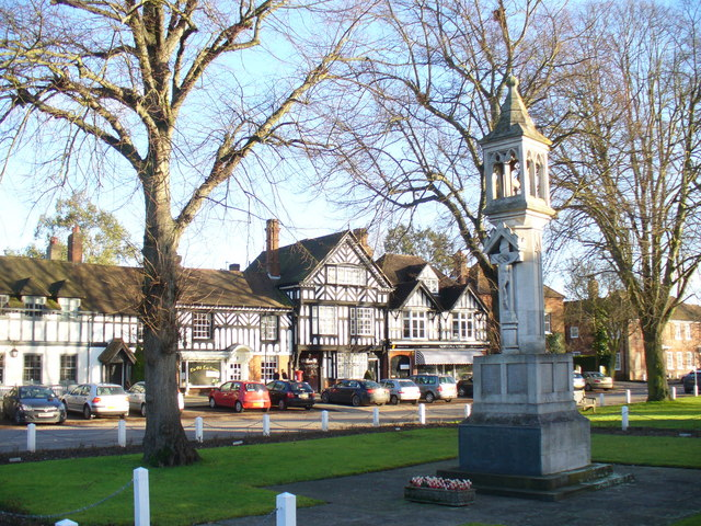 Beaconsfield War Memorial Outside the parish church on Windsor End. This wide street off the main road is still used for markets.